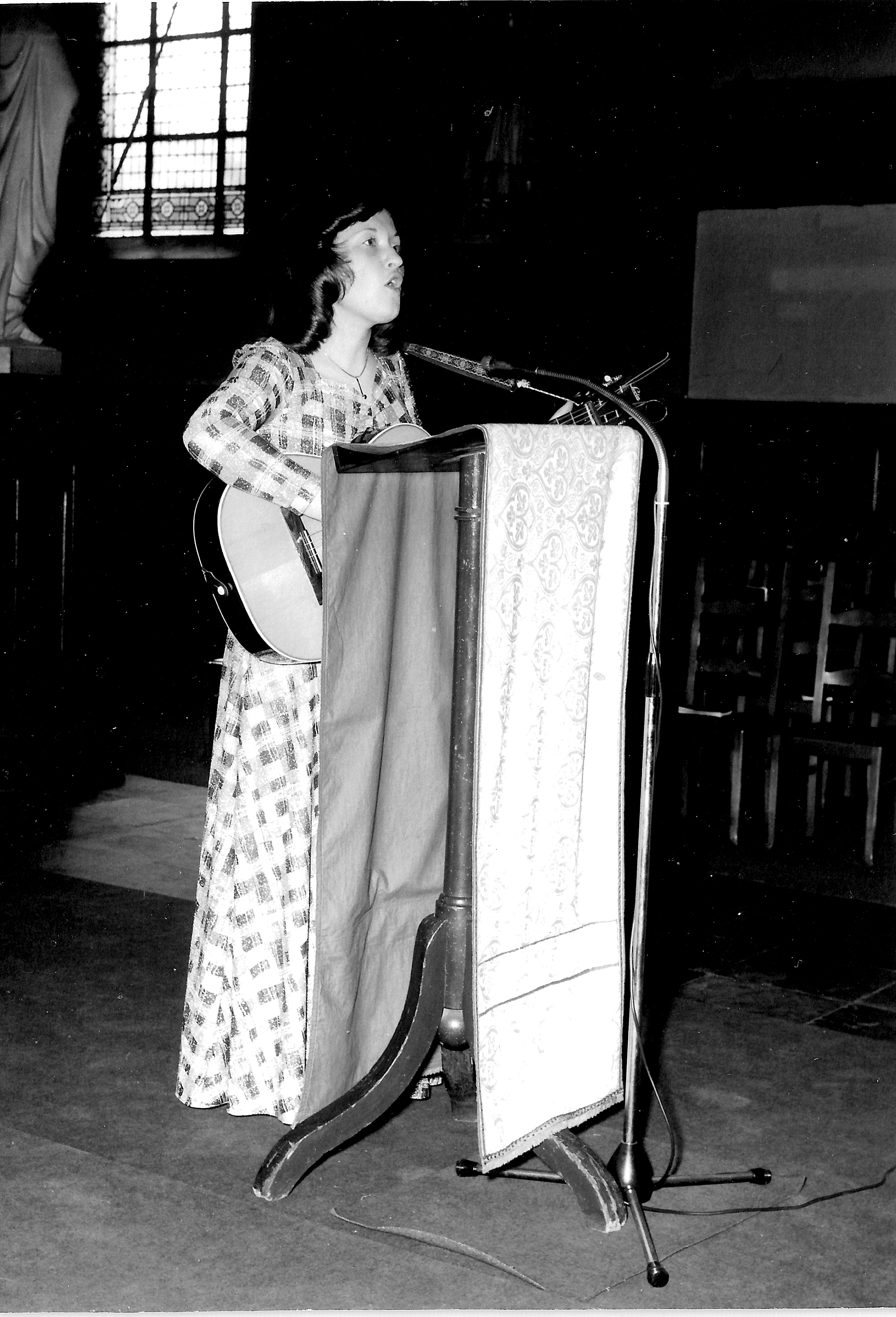 Singer Claire at the beginning of her career into the St Columba church of Deerlijk